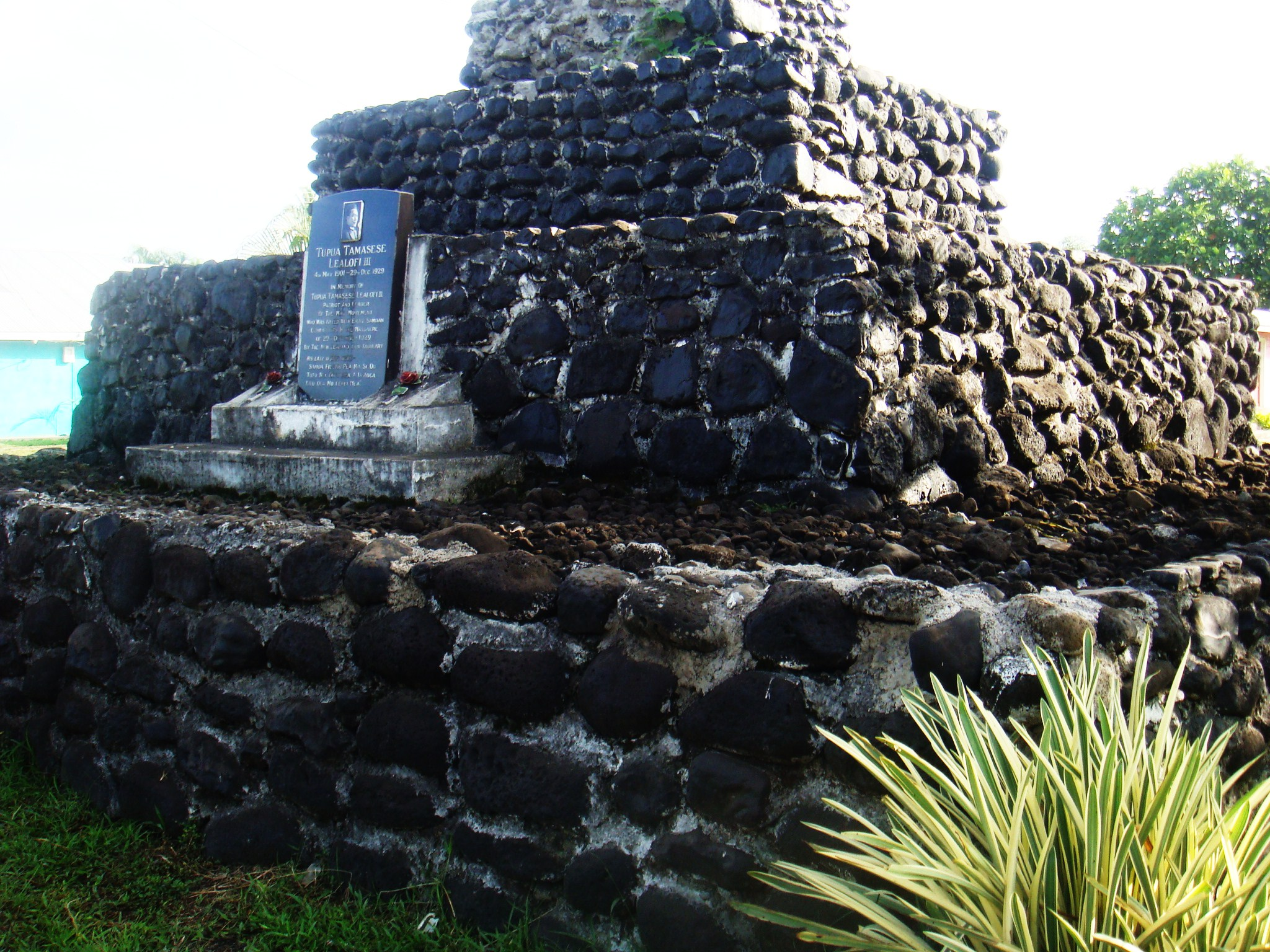 Tiered stone tomb of pro-independence Mau movement leader, Tupua Tamasese Lealofi III in Lepea village, Samoa. n.b. file name contains wrong spelling - correct spelling of village is 'Lepea' not 'Lepa'. Gagana Samoa: Le tu'ugamau (po'o le fanuaoti) o Tupua Tamasese Lealofi III i le nu'u o Lepea i Upolu, Samoa.